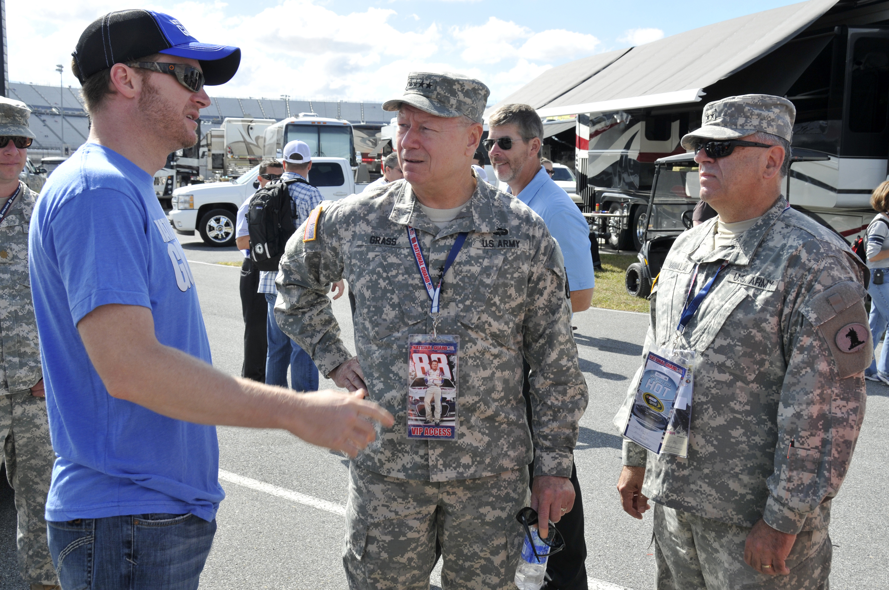 U.S. Army Gen. Frank Grass and Maj. Gen. Frank Vavala meet with Dale Earnhardt Jr. prior to the start of NASCAR’s AAA 400 race at the Dover International Speedway in Dover, Del., Sept. 29, 2013. Grass is the chief of the National Guard Bureau and Vavala is the adjutant general of the Delaware National Guard. (U.S. Army National Guard photo by Staff Sgt. Brendan Mackie/Released)